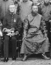 Hastings House Calcutta 1910. Seated from left: Prince of Derge Ngawang Jampel, Crown prince of Sikkim Sikyong Tulku, Charles Bell, 13th Dalai Lama, Lonchen Shatra, Lonchen Zholgang, Lonchen Chankyim and Kalon Tenzin Wangpo. Standing from left S.W Laden la, Tashi Wangdi, unknown, physician Ngoshi Jhampa Thubwang, unknown, unknown, Phala (aka Kusho Palhese), unknown Nepalese soldier.